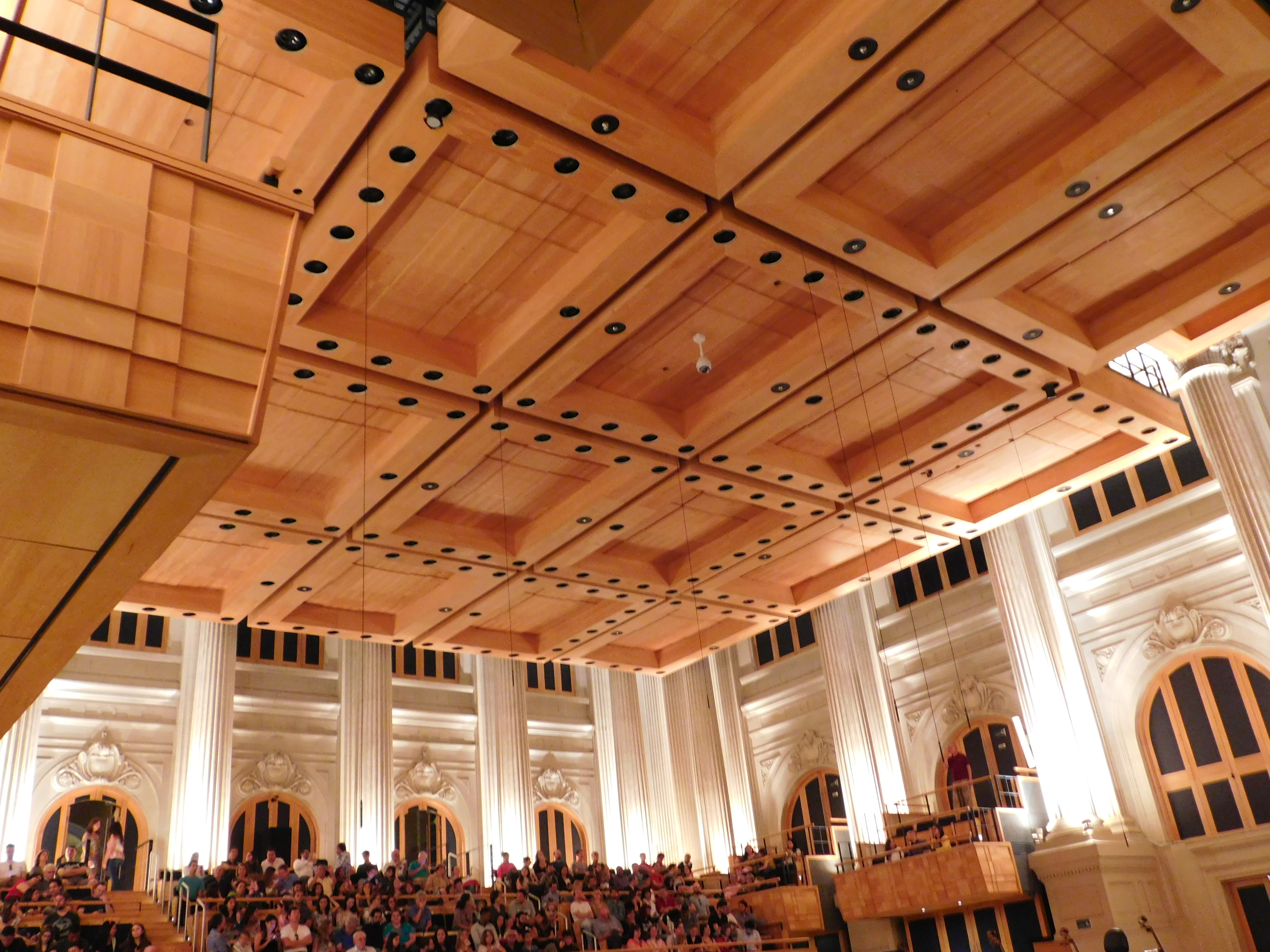 The Júlio Prestes Cultural Center, which is located in the Júlio Prestes Train Station in the old north central section of the city of São Paulo, Brazil, was inaugurated on July 9, 1999. The building has been totally restored and renovated by the São Paulo State Government, as part of the downtown revitalization in that city. It houses the Sala São Paulo, which has a capacity of 1498 seats and is the home of the São Paulo State Symphonic Orchestra (OSESP).